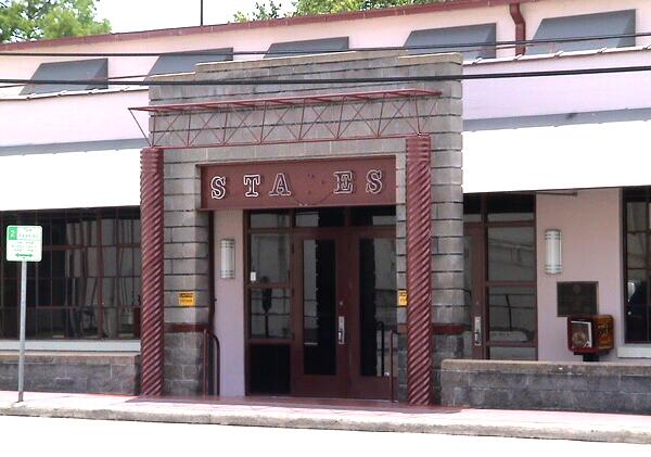 Stages Repertory Theatre